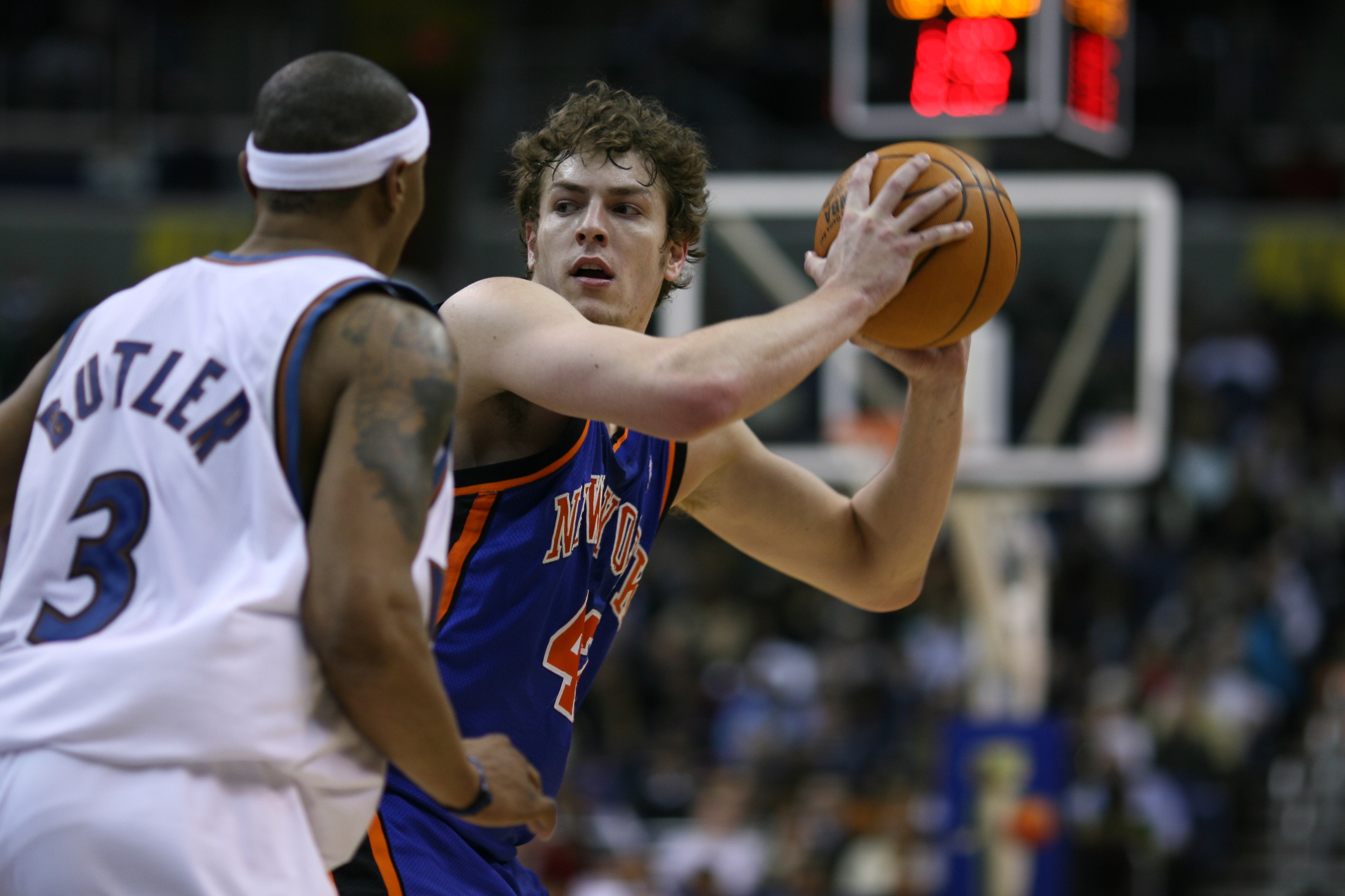 David Lee playing with the New York Knicks